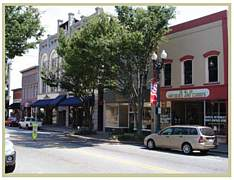 Source is from the Concord Downtown Master Plan. Picture was taken from Union St S in the heart of downtown Concord, NC. The date is approximately 2002.